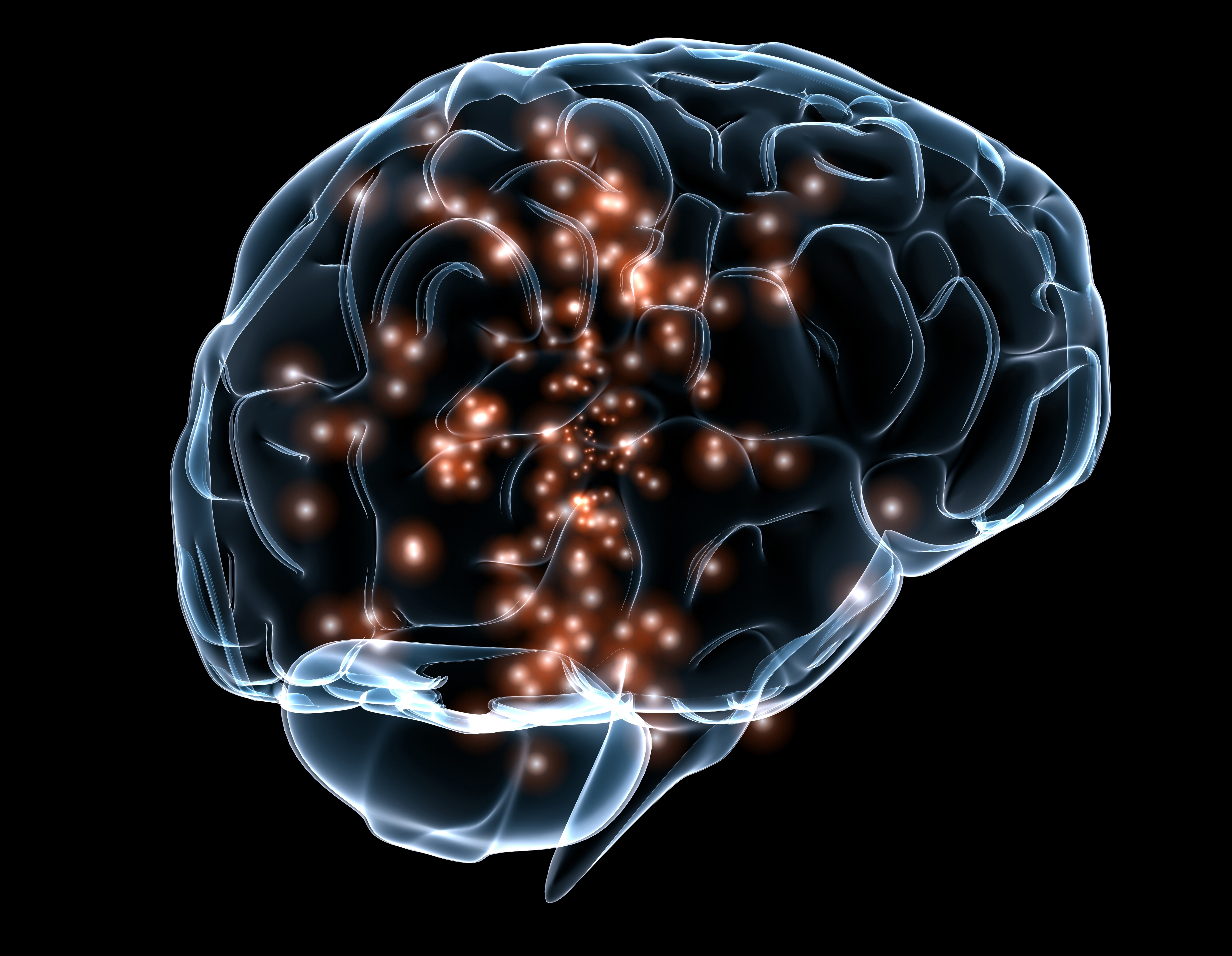 Work on DARPA’s Systems-Based Neurotechnology for Emerging Therapies (SUBNETS) program is set to begin with teams led by UC San Francisco (UCSF), and Massachusetts General Hospital (MGH). The SUBNETS program seeks to reduce the severity of neuropsychological illness in service members and veterans by developing closed-loop therapies that incorporate recording and analysis of brain activity with near-real-time neural stimulation. The program, which will use next-generation devices inspired by current Deep Brain Stimulation (DBS) technology, was launched in support of President Obama’s brain initiative.